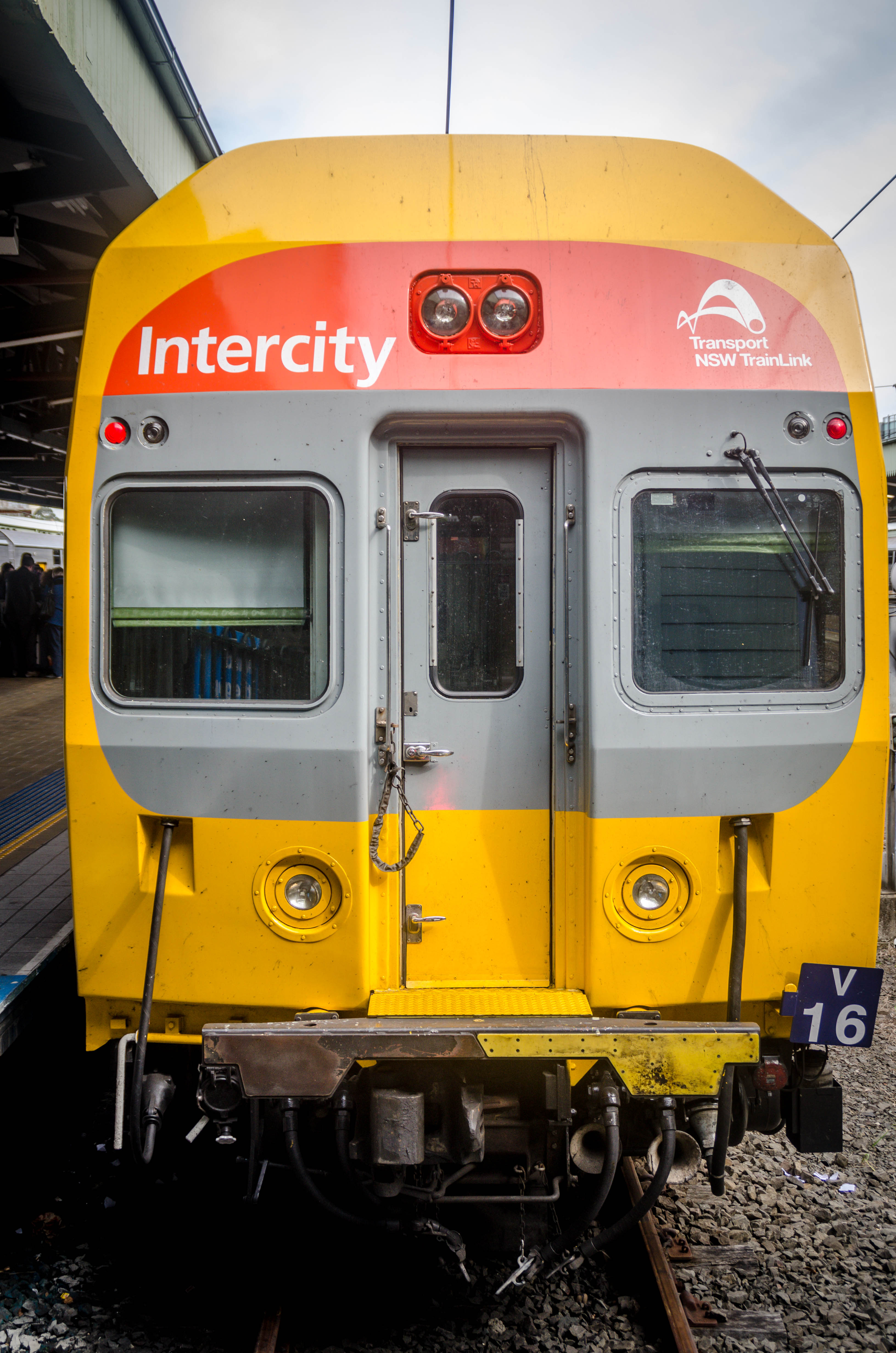 NSW TrainLink V16 Set